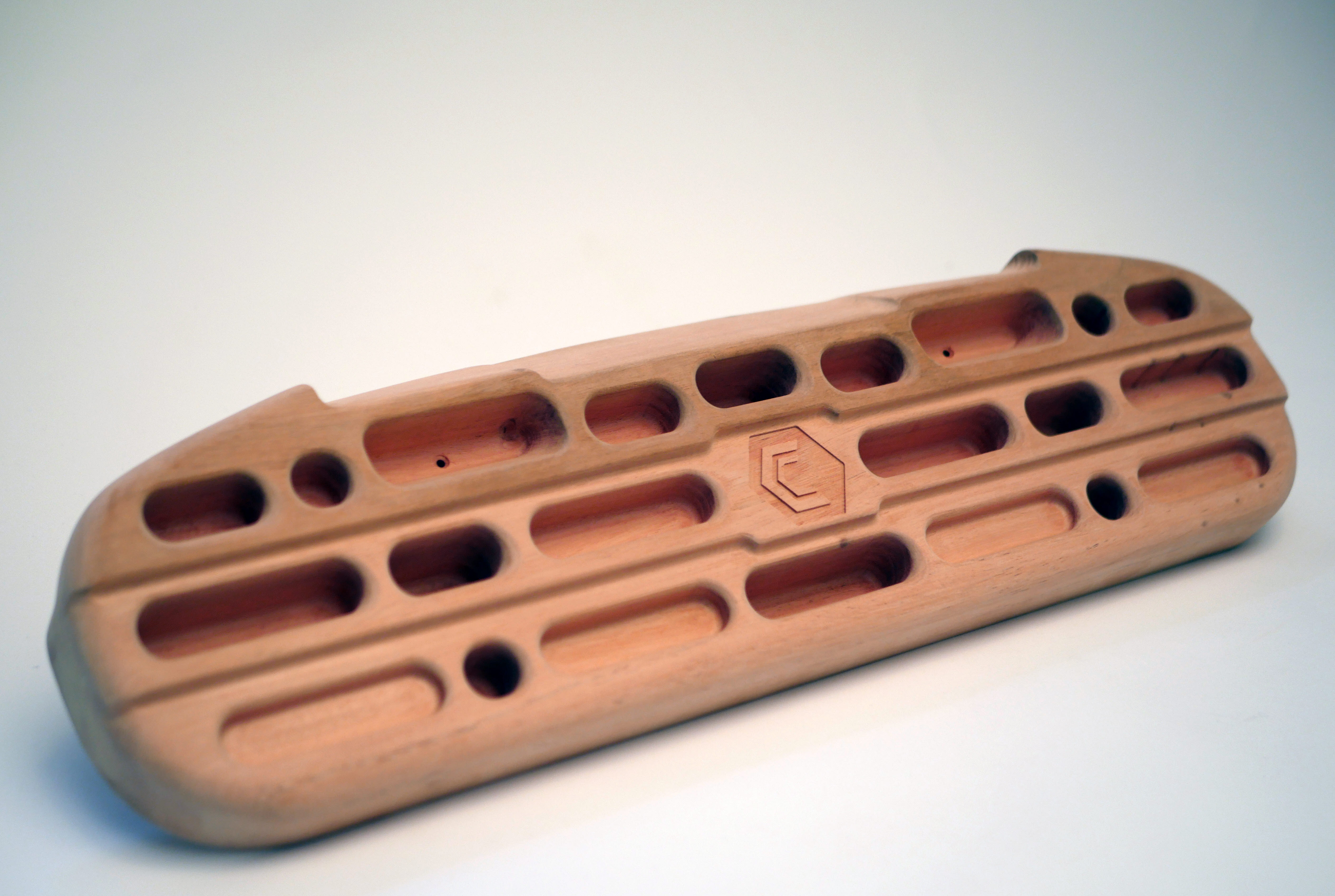 Concept Climbing Solution wooden hangboard designed for increasing contact strength amongst rock climbers